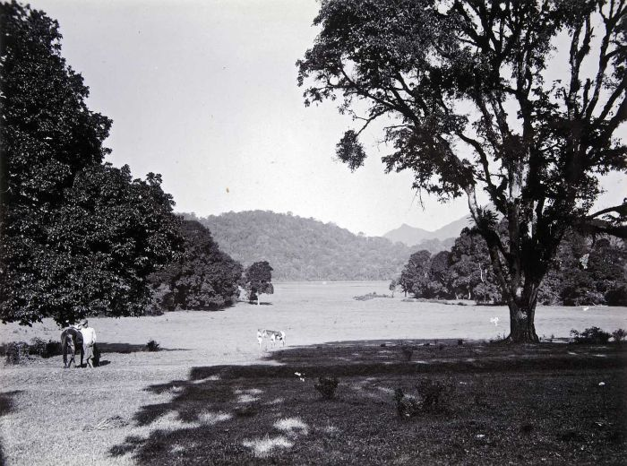 The English Valley or English Park near the Kawah Kamojang, Garut